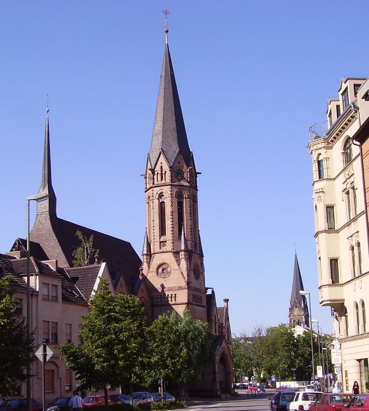 churches in Ludwigshafen, Germany